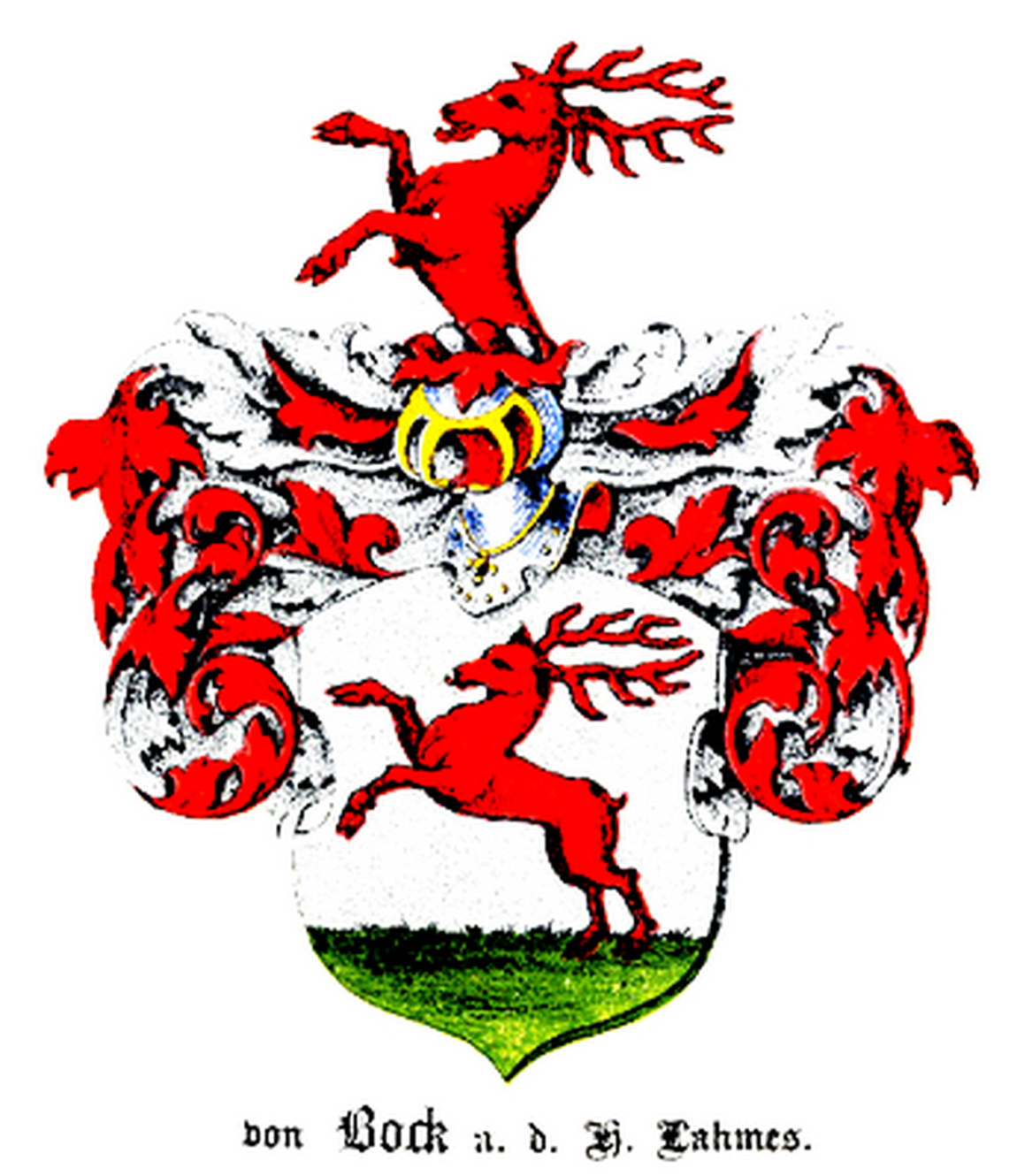 Coat of arms of Bock (of Lahmes) family.